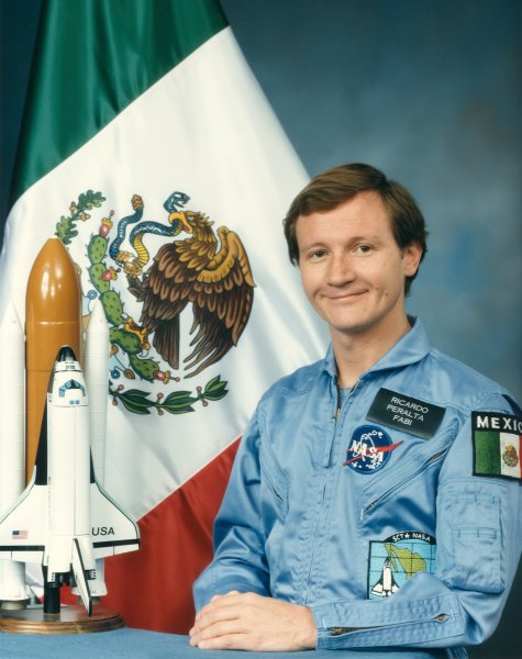 Ricardo Peralta NASA photo from 1985.